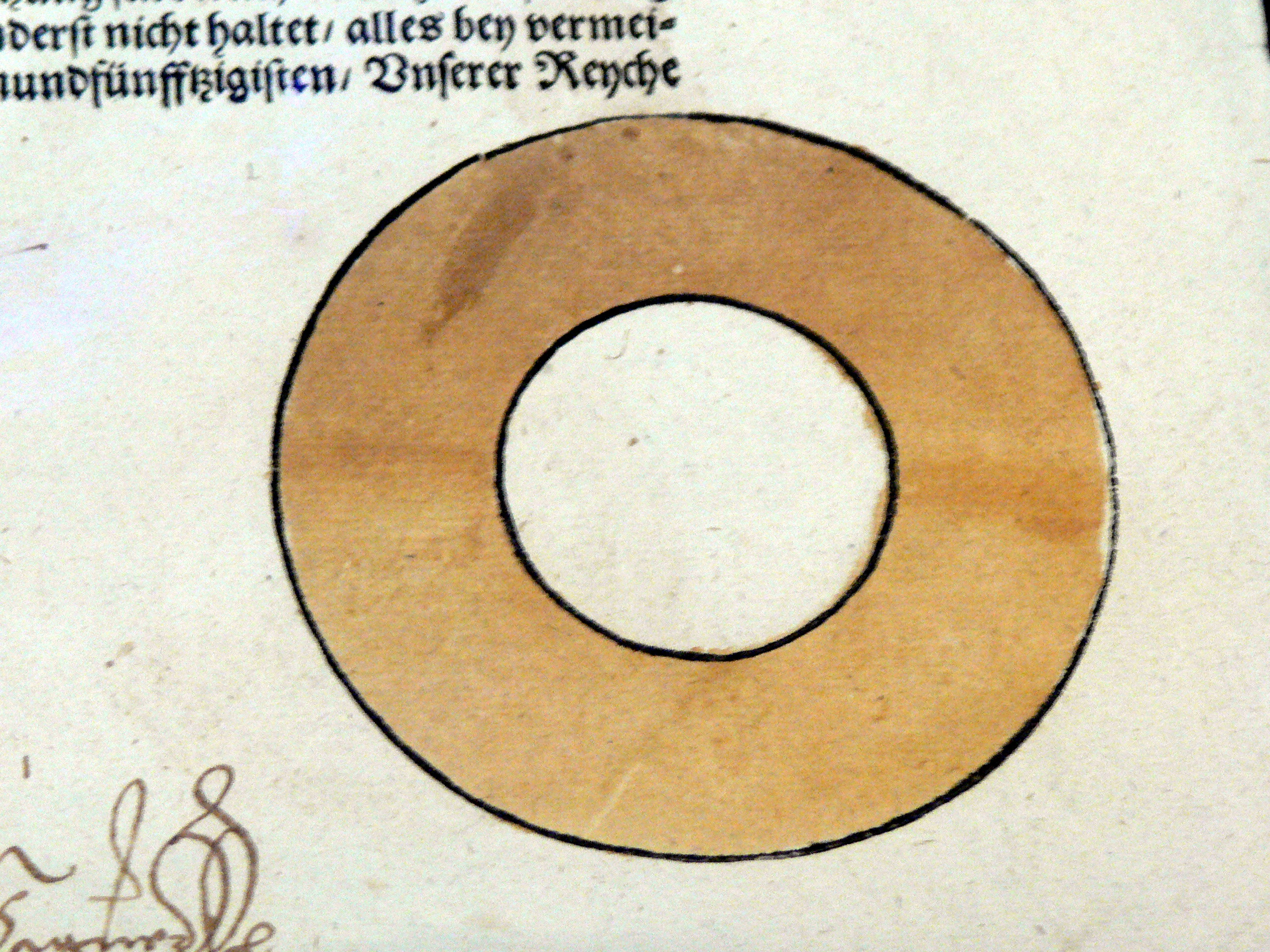 Document ( August 1st 1551 ) of emperor Ferdinand I ordering Jews to wear yellow circles on their cloth - detail.( Upper Austrian county archives ).